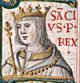 Miniature of Sancho I of Portugal (1185-1211)